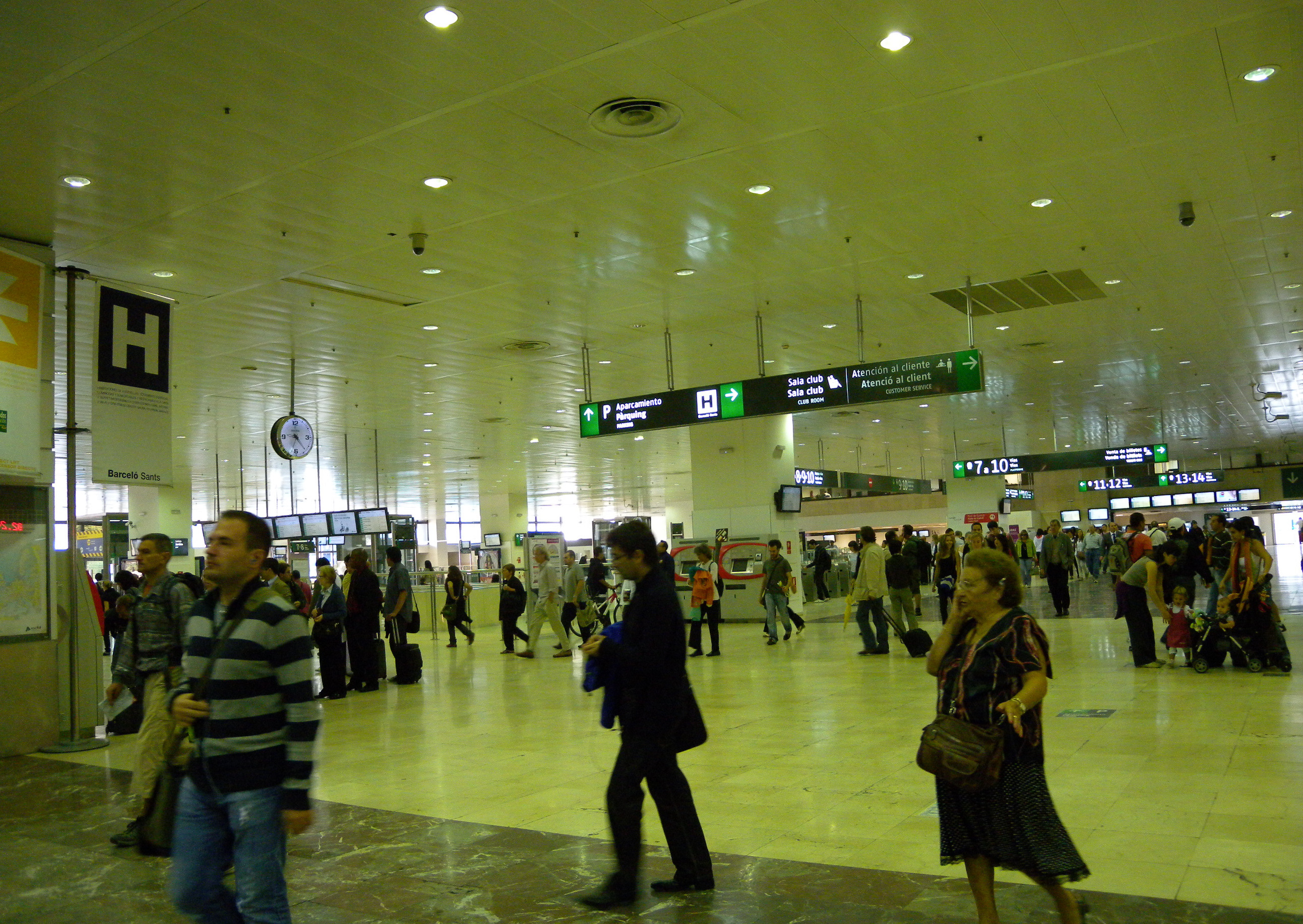 Barcelona Sants railway station.